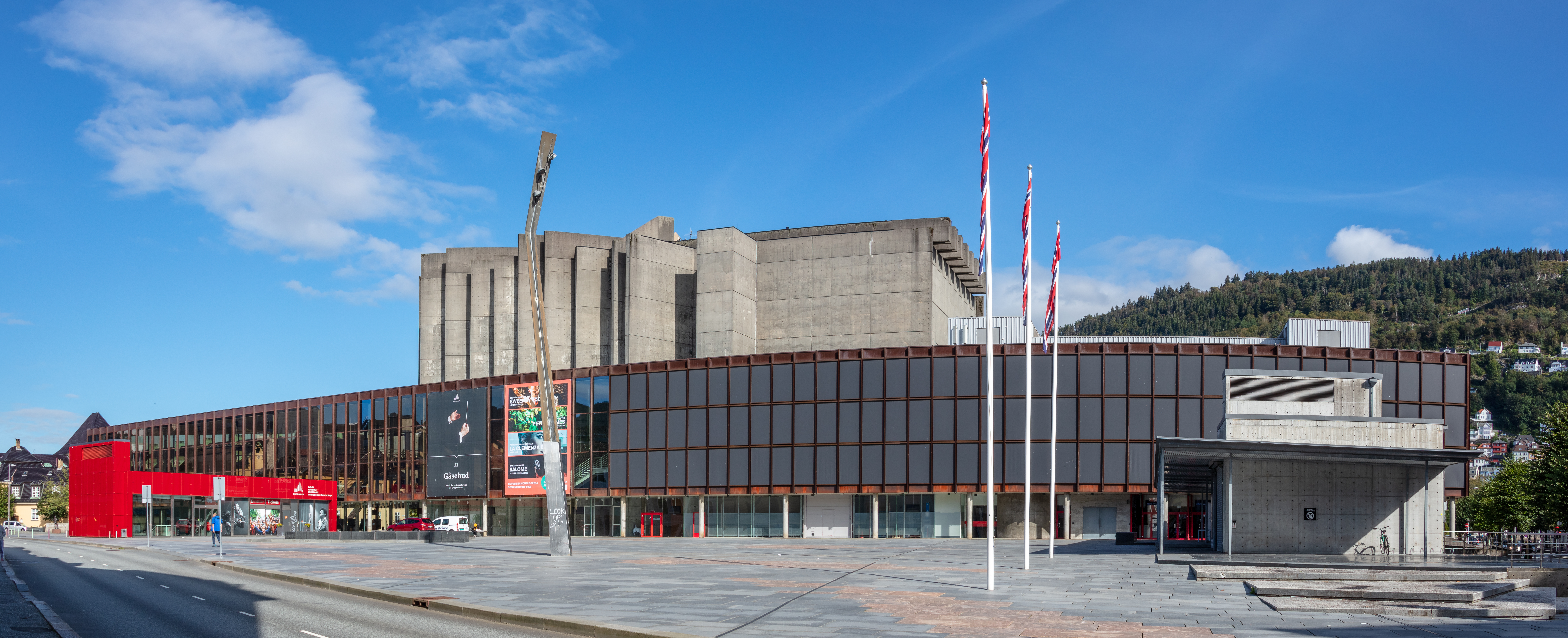 Grieghallen, Bergen, Norway